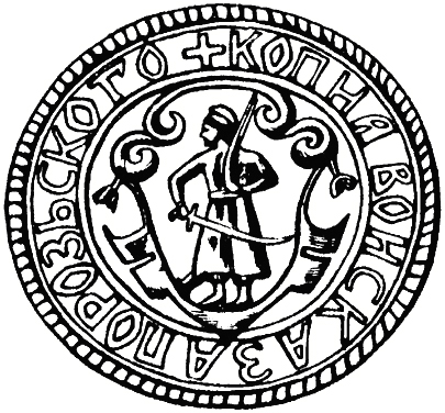 Sign of Grygoriy Loboda, otaman of Ukrainian cossacks, 1595